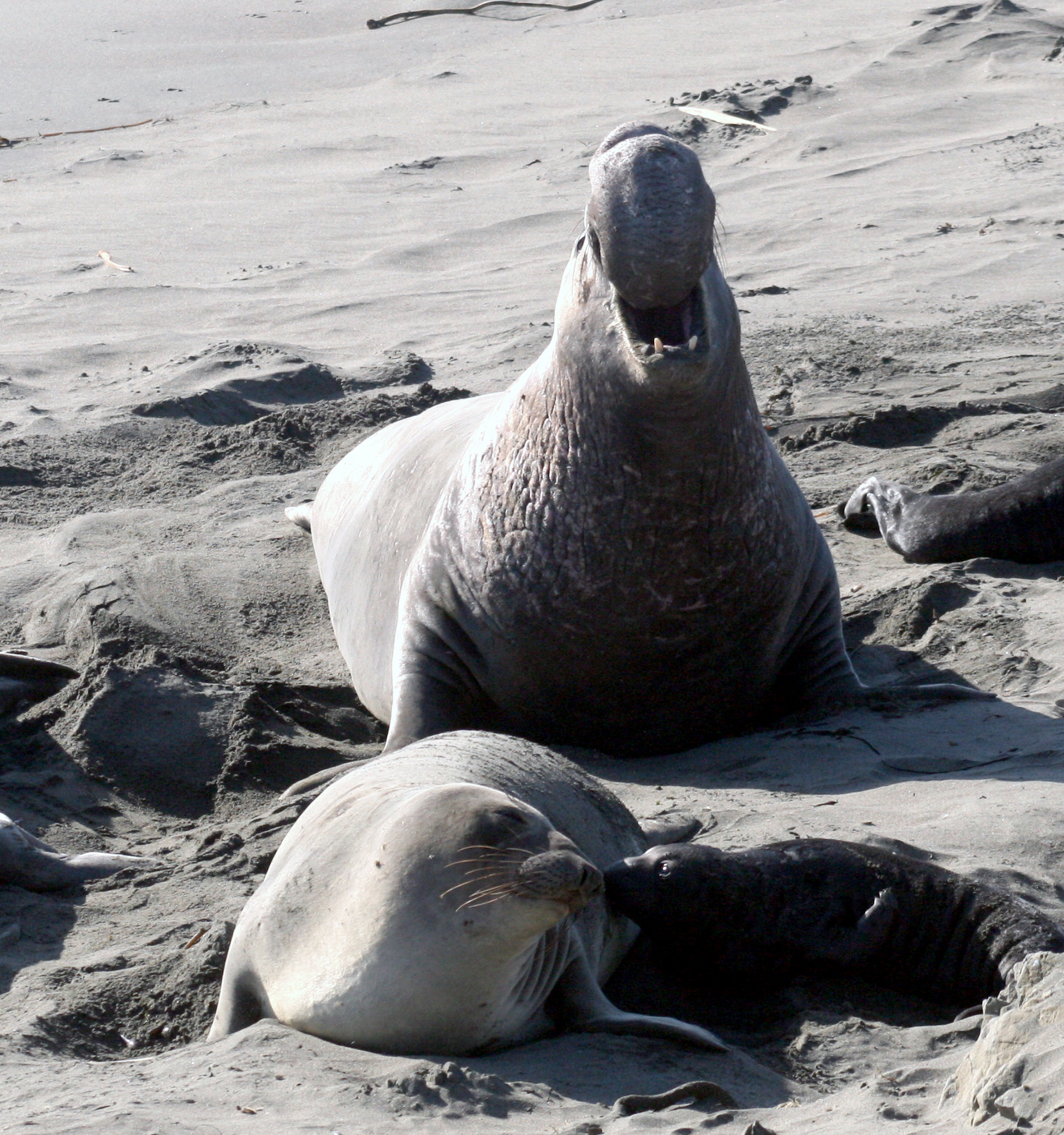 Male, female and pup Northern Elephant Seals.